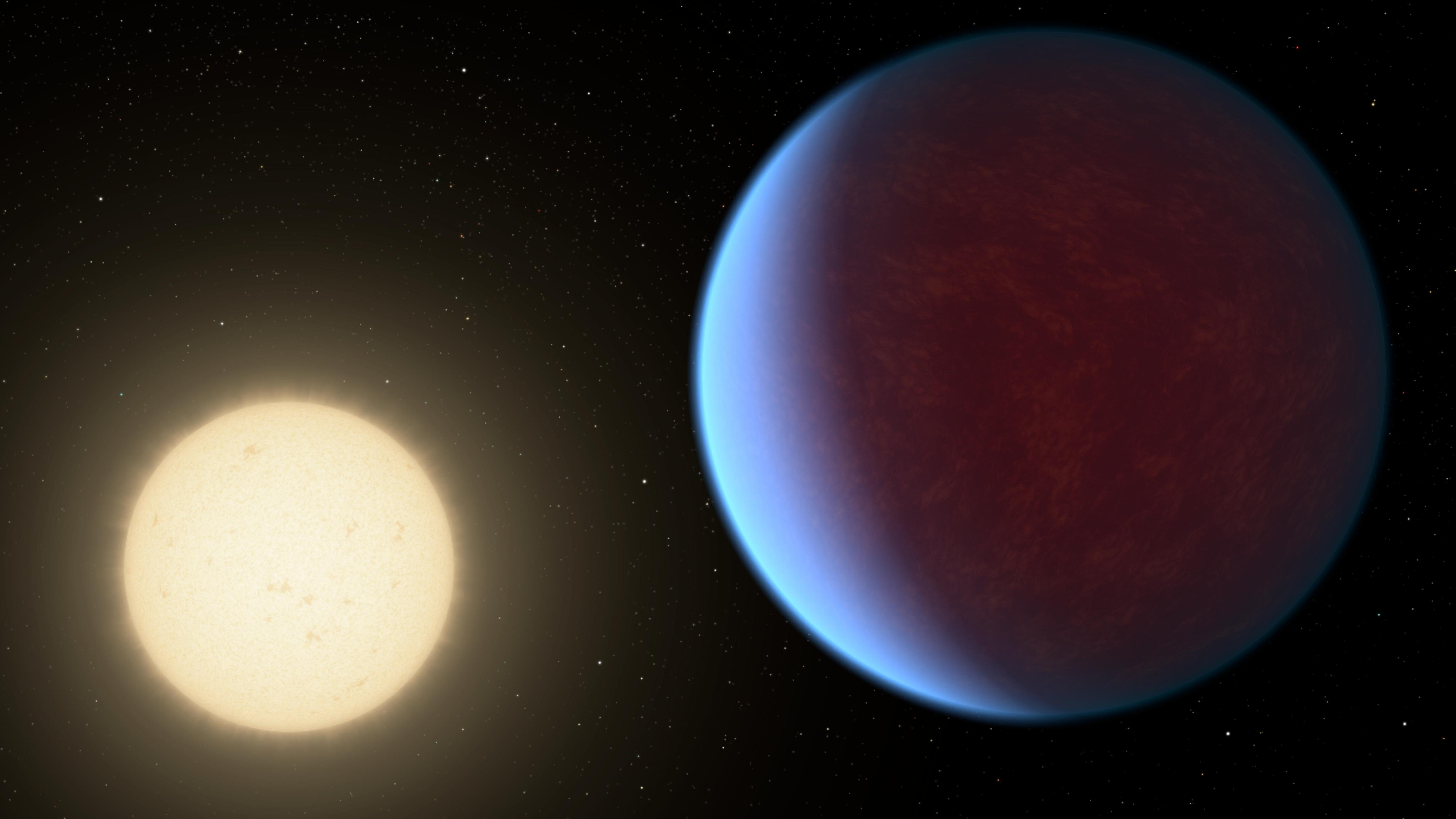 PIA22069: 55 Cancri e with Atmosphere (Artist's Concept) The super-Earth exoplanet 55 Cancri e, depicted with its star in this artist's concept, likely has an atmosphere thicker than Earth's, with ingredients that could be similar to those of Earth's atmosphere, according to a 2017 study using data from NASA's Spitzer Space Telescope. Scientists say the planet may be entirely covered in lava. The planet is so close to its star that one face of the planet consistently faces the star, resulting in a dayside and a nightside. NASA's Jet Propulsion Laboratory, Pasadena, California, manages the Spitzer Space Telescope mission for NASA's Science Mission Directorate, Washington. Science operations are conducted at the Spitzer Science Center at Caltech in Pasadena, California. Spacecraft operations are based at Lockheed Martin Space Systems Company, Littleton, Colorado. Data are archived at the Infrared Science Archive housed at IPAC at Caltech. Caltech manages JPL for NASA. For more information about Spitzer, visit: and . For more information about exoplanets, visit